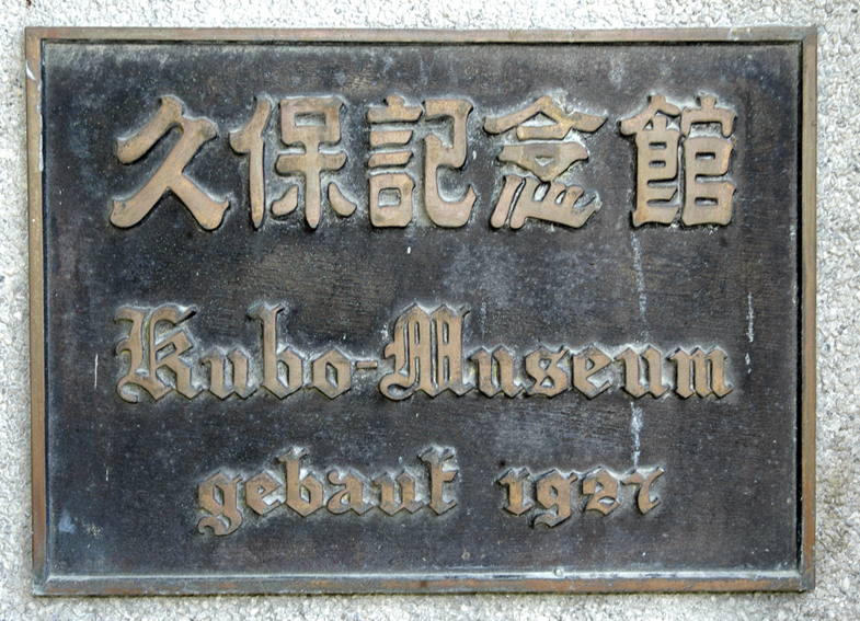 Doorplate of the Kubo-Museum (Medical Faculty, Kyushu University, Fukuoka-City, Japan), built in 1927 in commemoration of the 20th anniversary of the Department of Otorhinolaryngology, founded by Kubo Inokichi. This is the oldest museum for medical history in Japan.